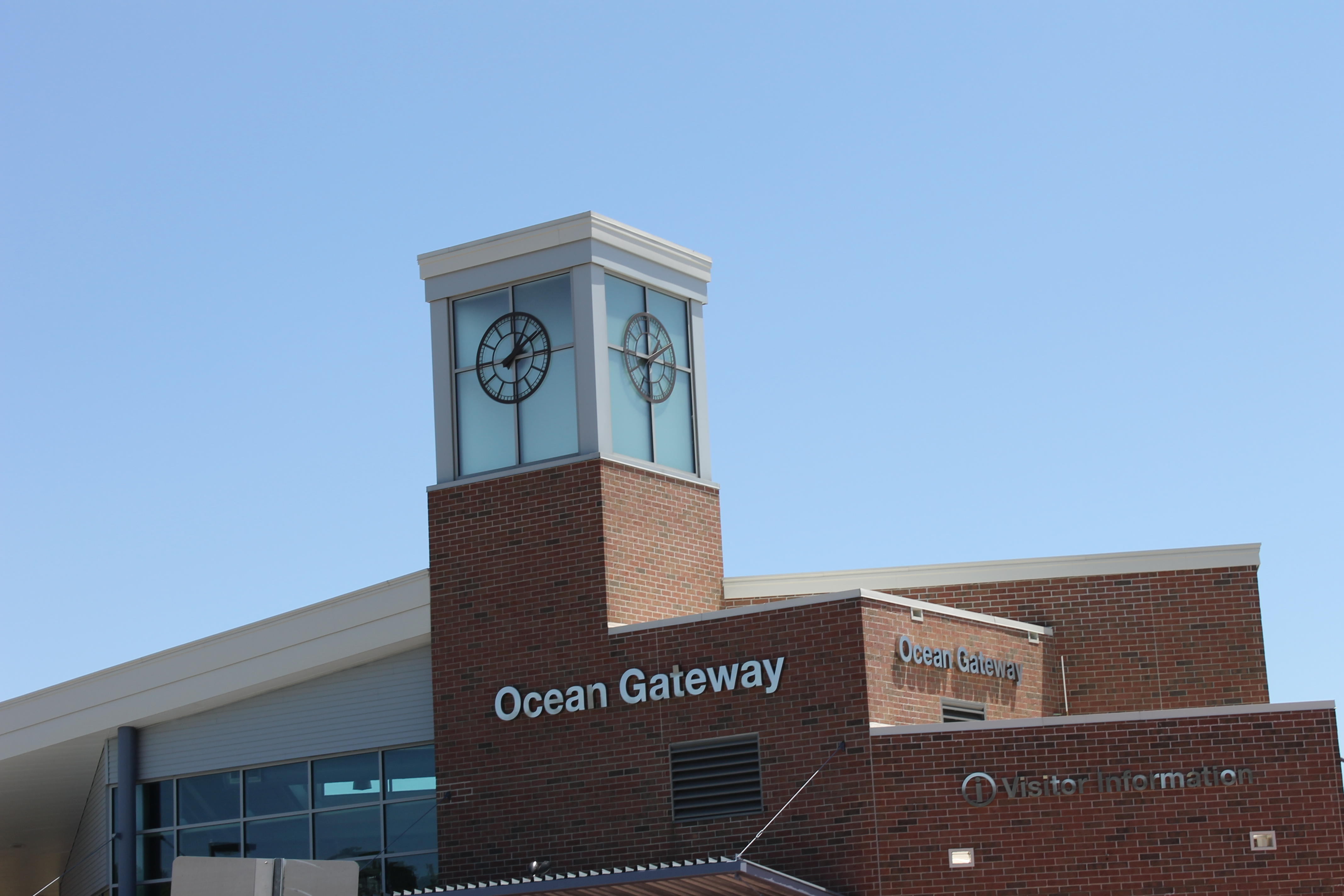 I took photo of Ocean Gateway office at Portland, ME, harbor with Canon camera.